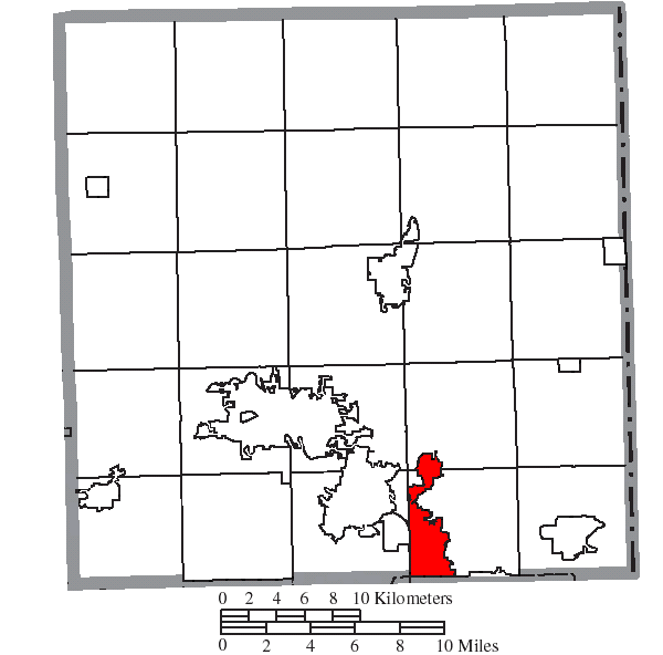 Map of the municipal and township boundaries of Trumbull County, Ohio, United States, as of the 2000 census, with the location of the city of Girard highlighted. Township borders are shown only in unincorporated areas in order to differentiate incorporated and unincorporated areas more clearly.